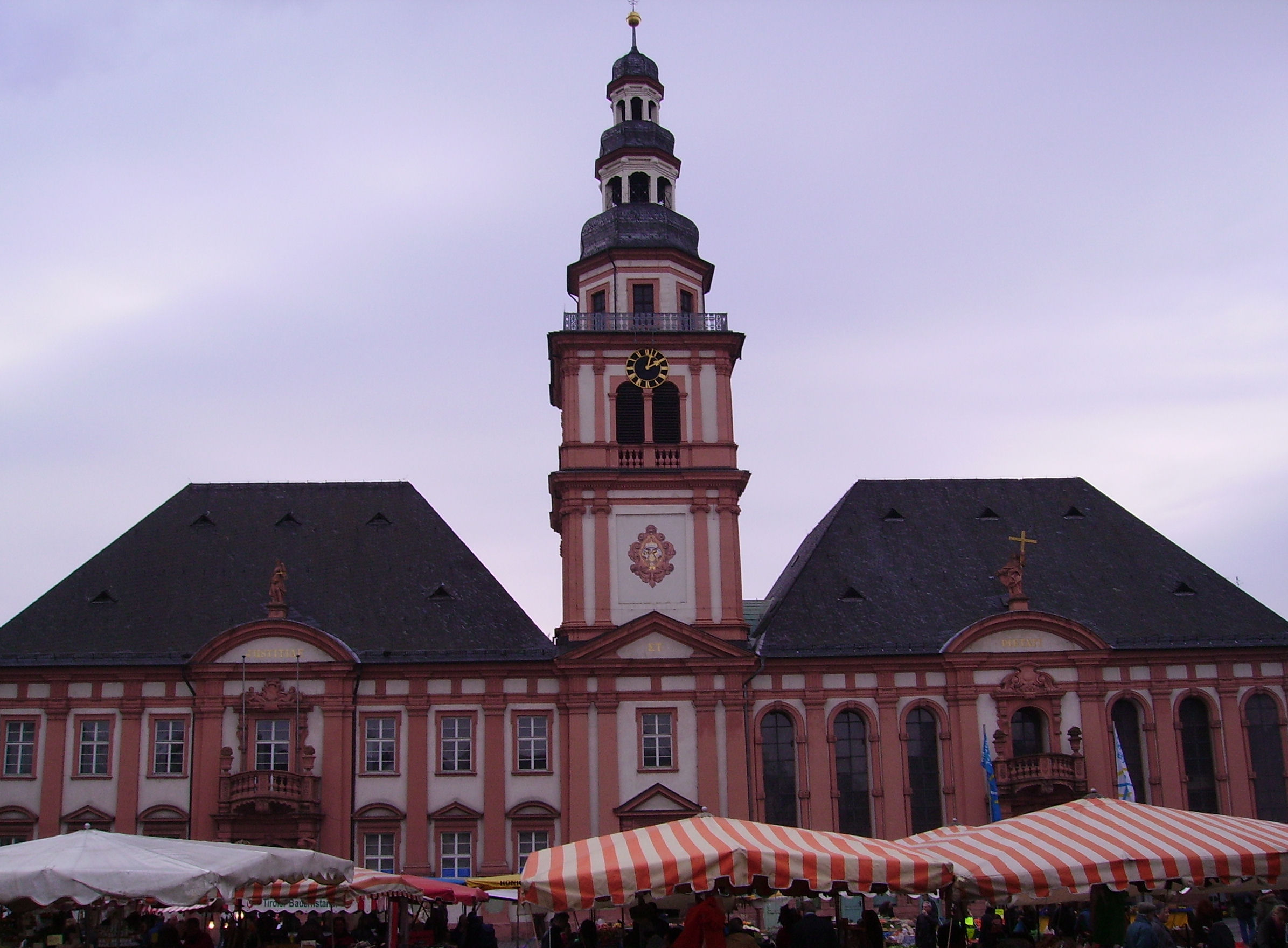 market square of Mannheim, Germany